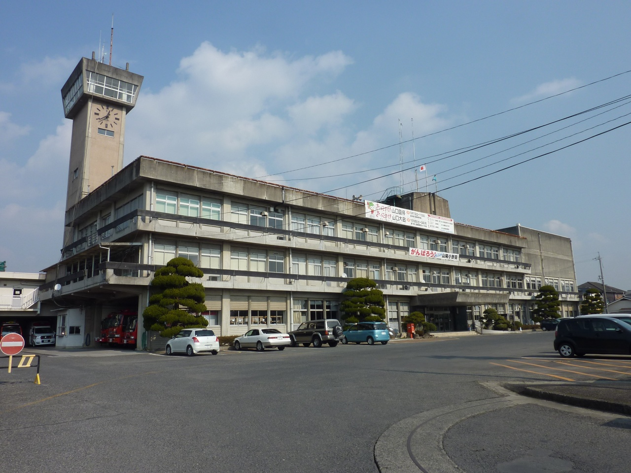 Sanyo-Onoda City Office Sanyo Synthesis Branch (Former Sanyo Town Office - Yamaguchi Prefecture, Japan)